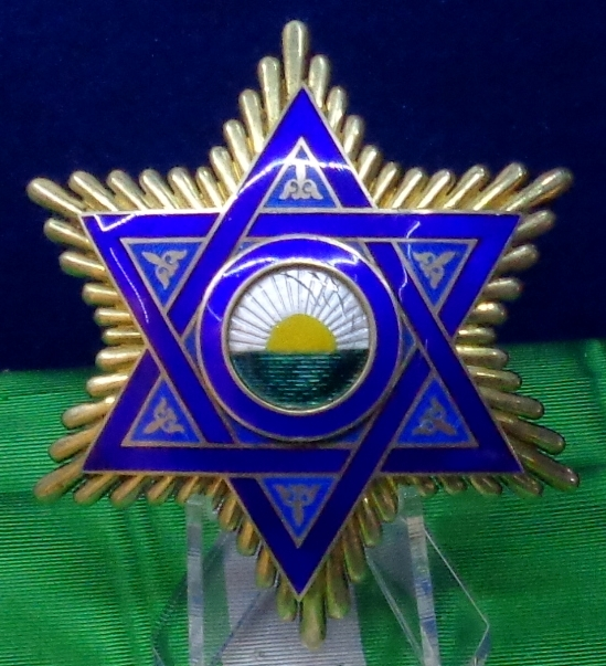 Order of Mehdauia, star of Grand Cross, 1926-1956. Spanish protectorate in Morocco. The exhibition of the Tallinn Museum of Orders of Knighthood, Estonia.